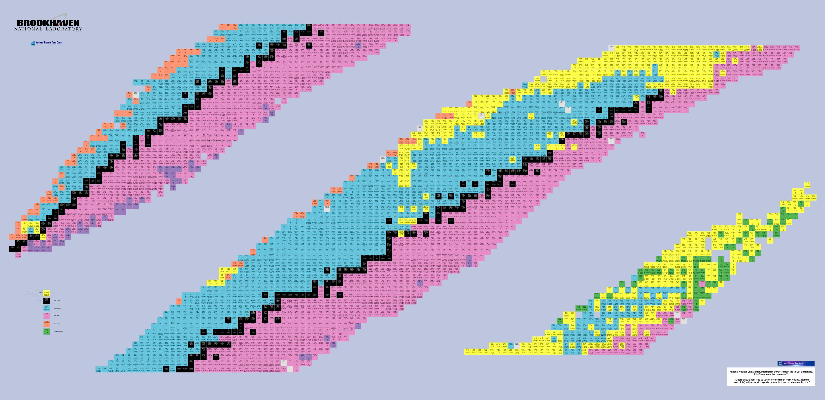 Map of nuclides, chart of nuclides alpha decay stable nuclide beta+/EC decay beta- decay proton decay spontaneous fission neutron emission